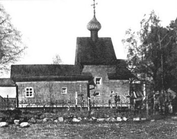 The Church of Laying Our Lady’s Holy Robe from the village of Borodava near Ferapontov Monastery. Photo. Near 1900